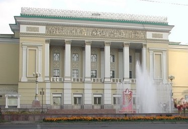 Abay theatre in Almaty (GATOB)